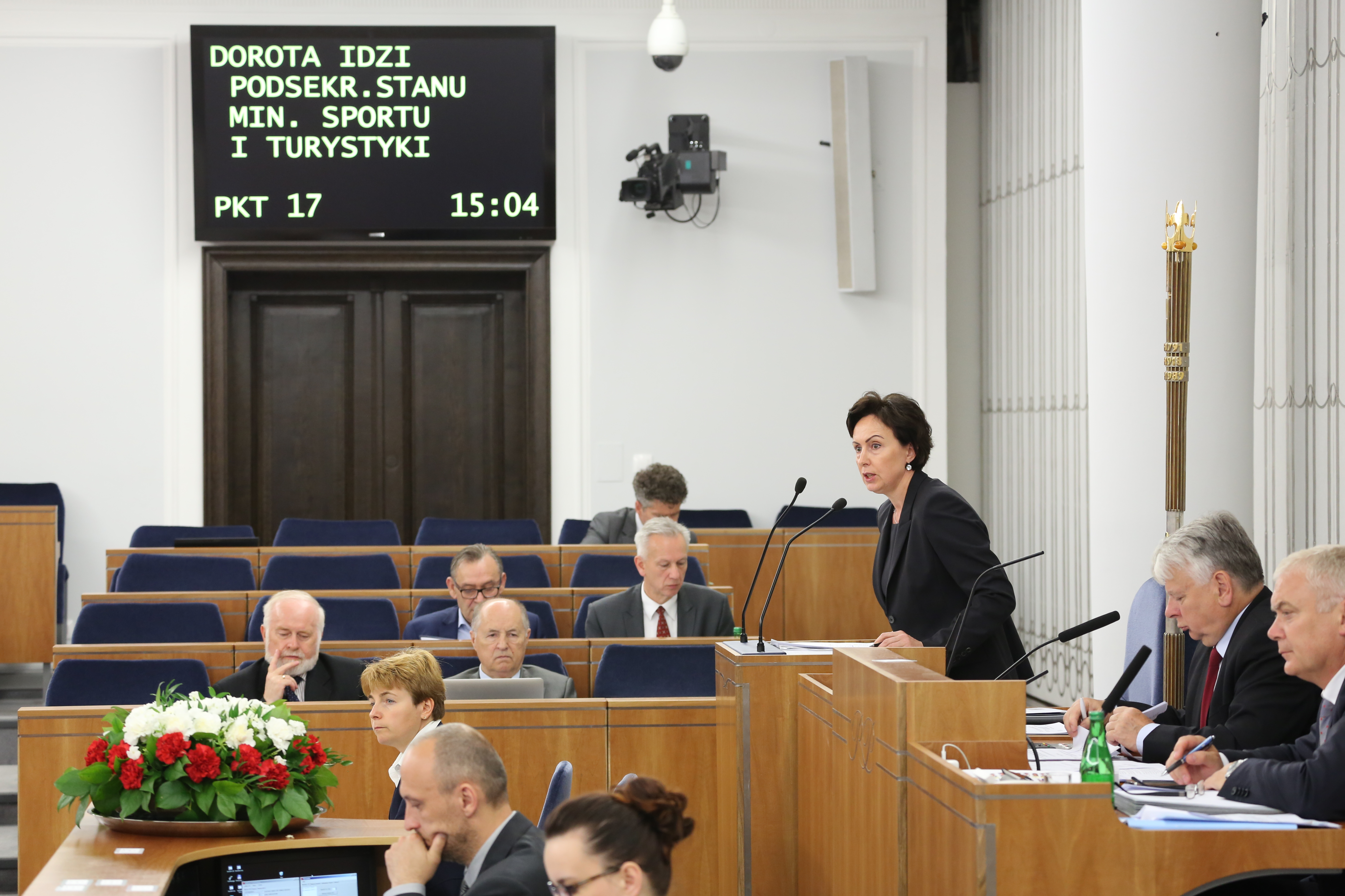 Undersecretary of State at the Ministry of Sport and Tourism Dorota Idzi during 78th sitting of the Polish Senate